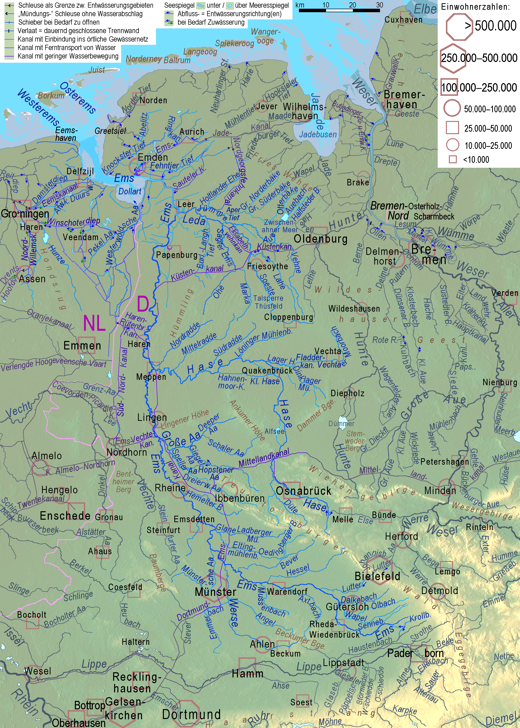 Topographic map of River Ems system, German version